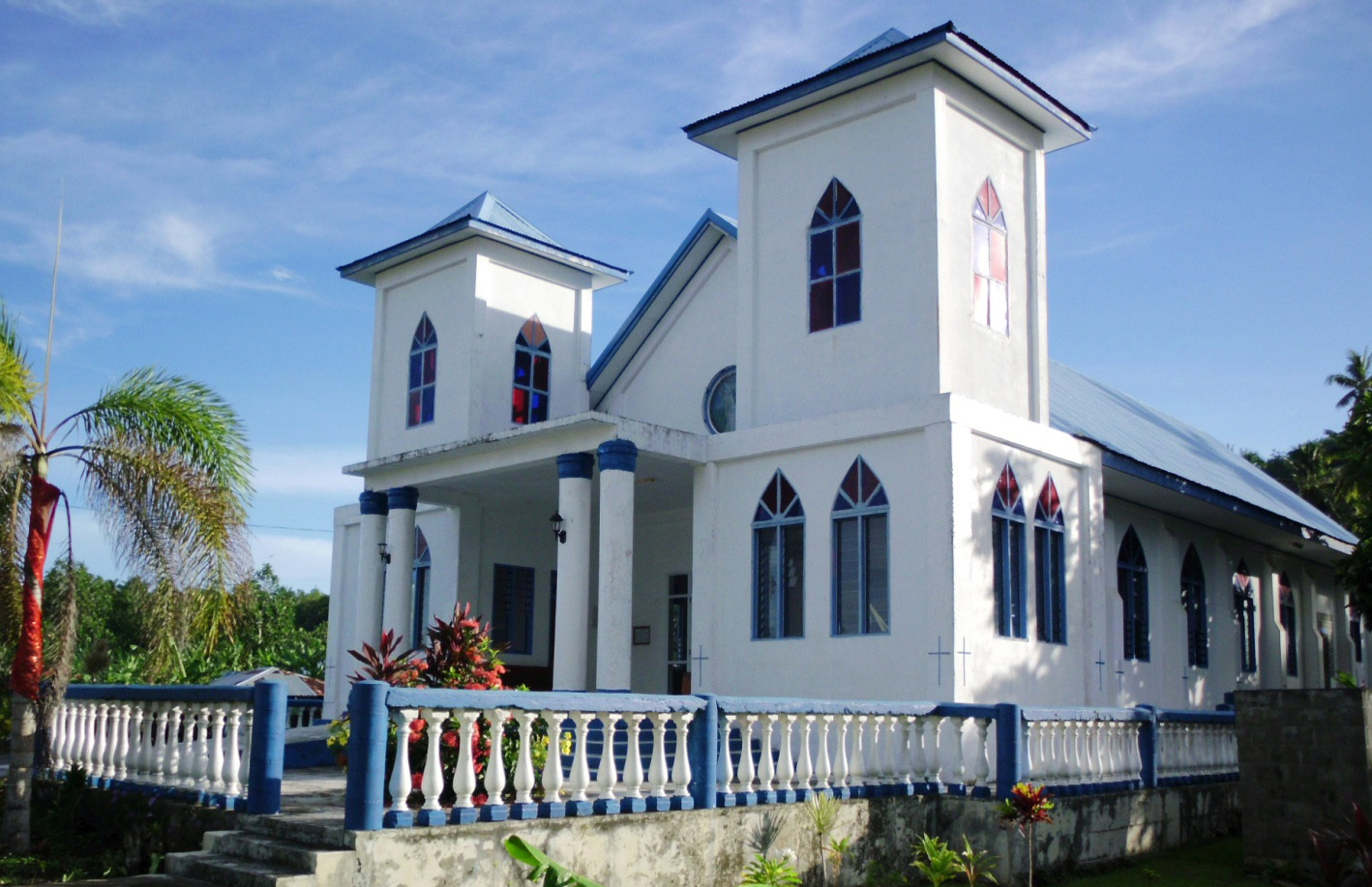 Church